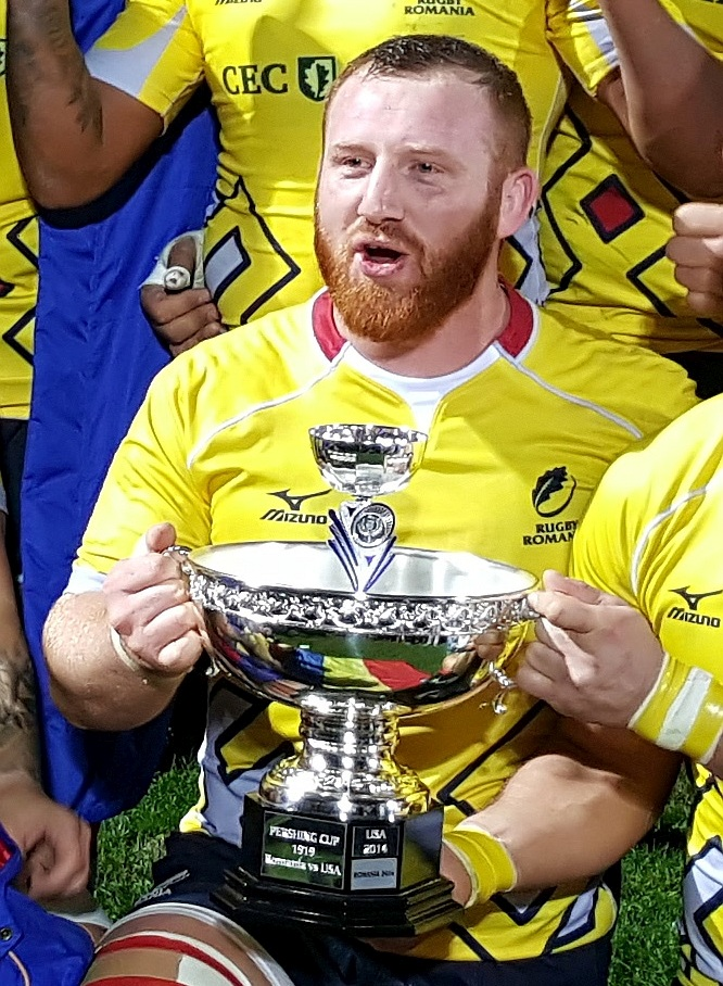 Ionel Badiu of Romania National Rugby Team holding the Pershing Cup trophy after a test match against United States National Rugby Team in November 2016